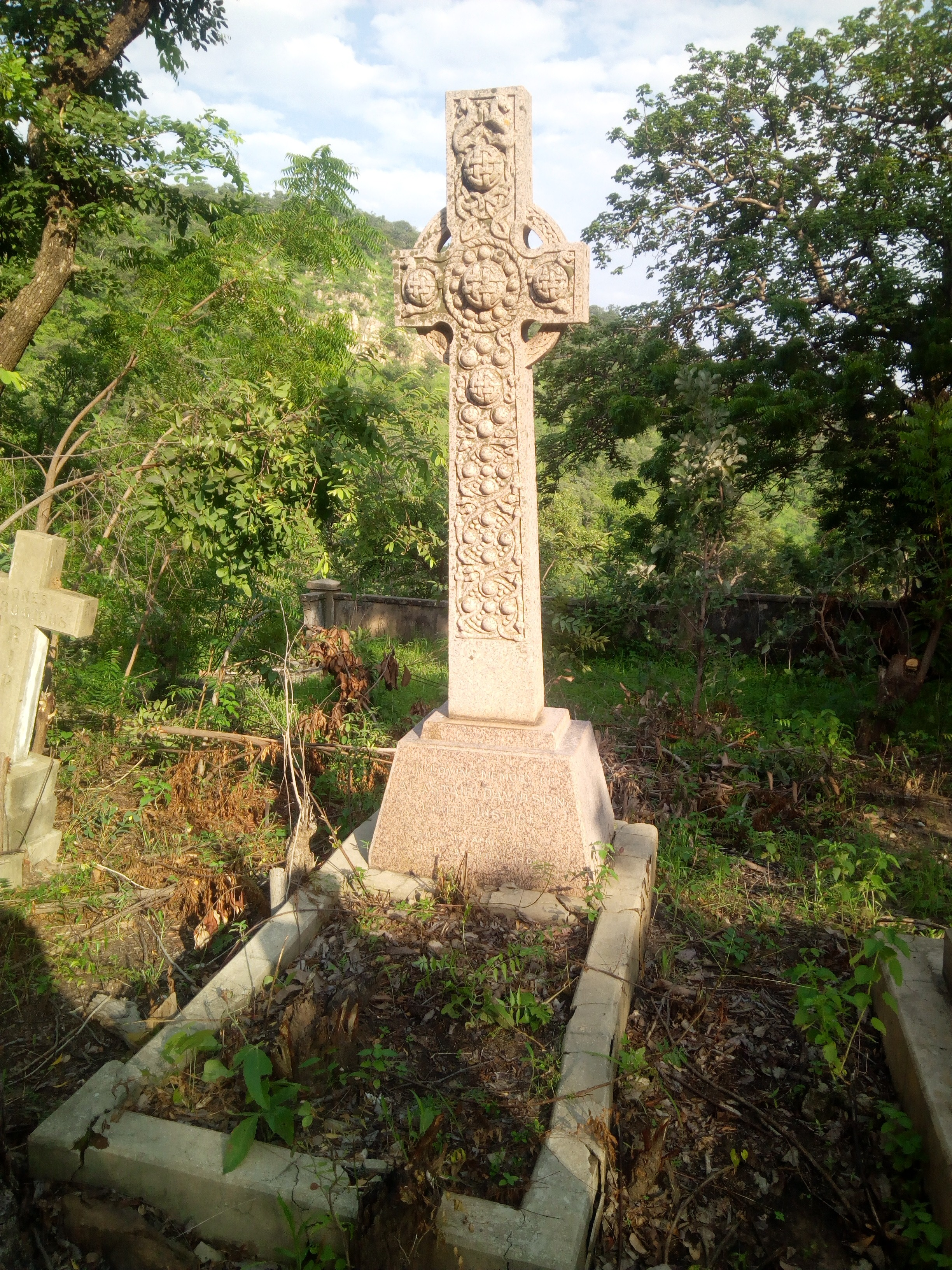 This is the grave of the then Chief Jutice Alastaire Davidson, who died and was buried at Jebba in 1901. (1stApril, 1865 to 29th July, 1901)